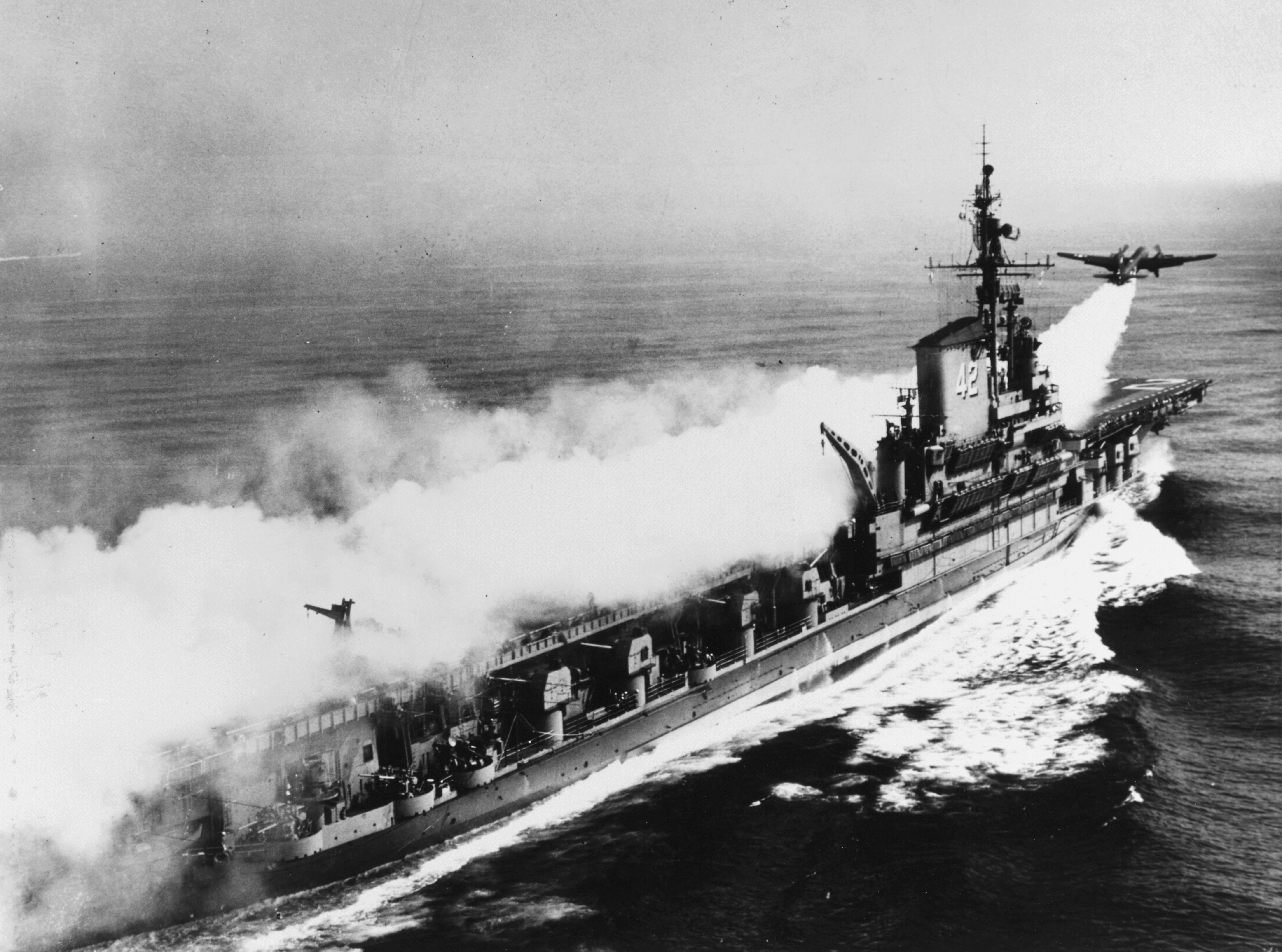 A U.S. Navy Lockheed P2V-3C Neptune launches with "Jet-assisted take-off (JATO)" from the aircraft carrier USS Franklin D. Roosevelt (CVB-42) on 2 July 1951.